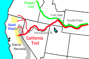 Map of the 1850s California Trail — with cut-off variations.